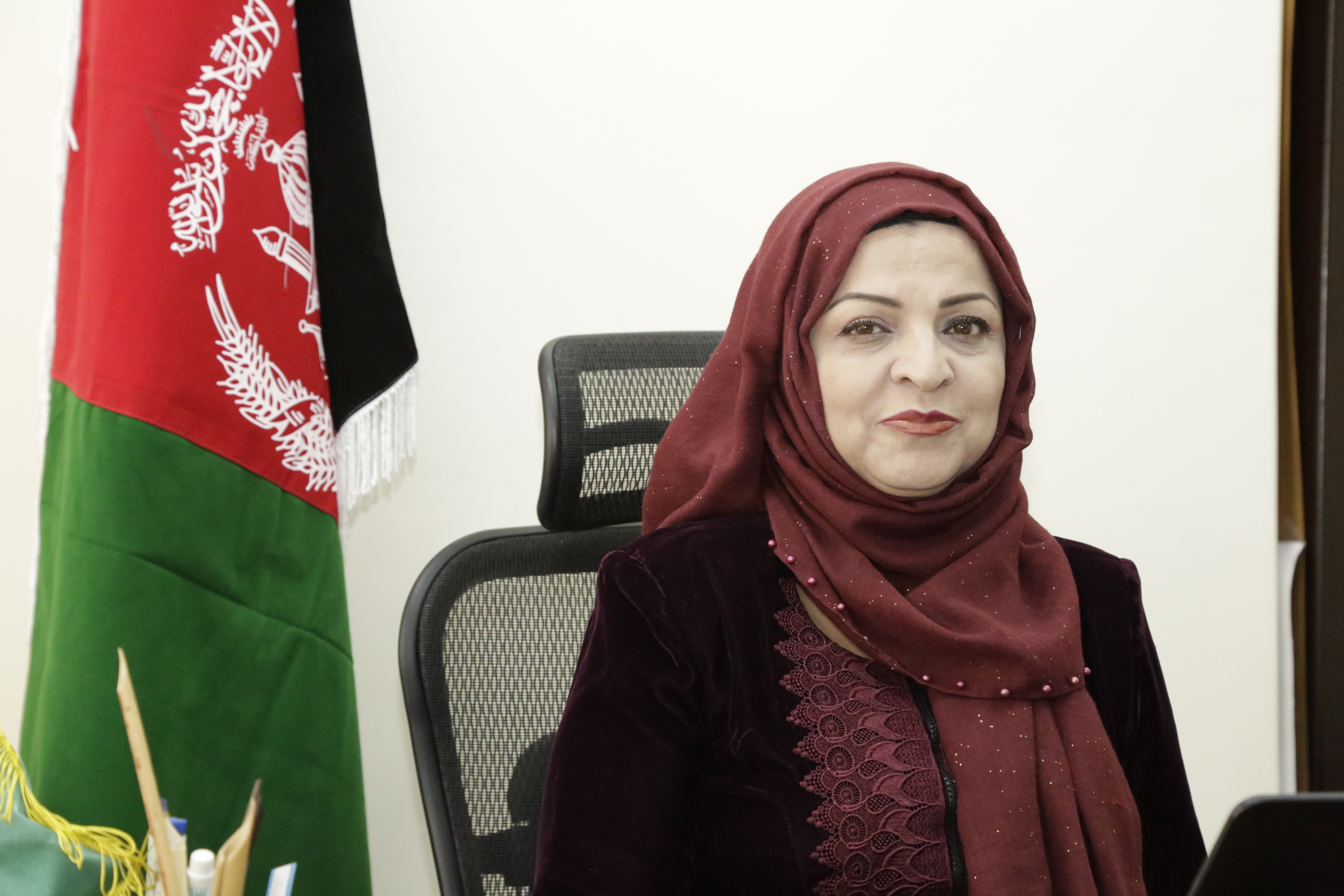 Qadriya Yazdanparast at her office at the Afghanistan Independent Human Rights Commission